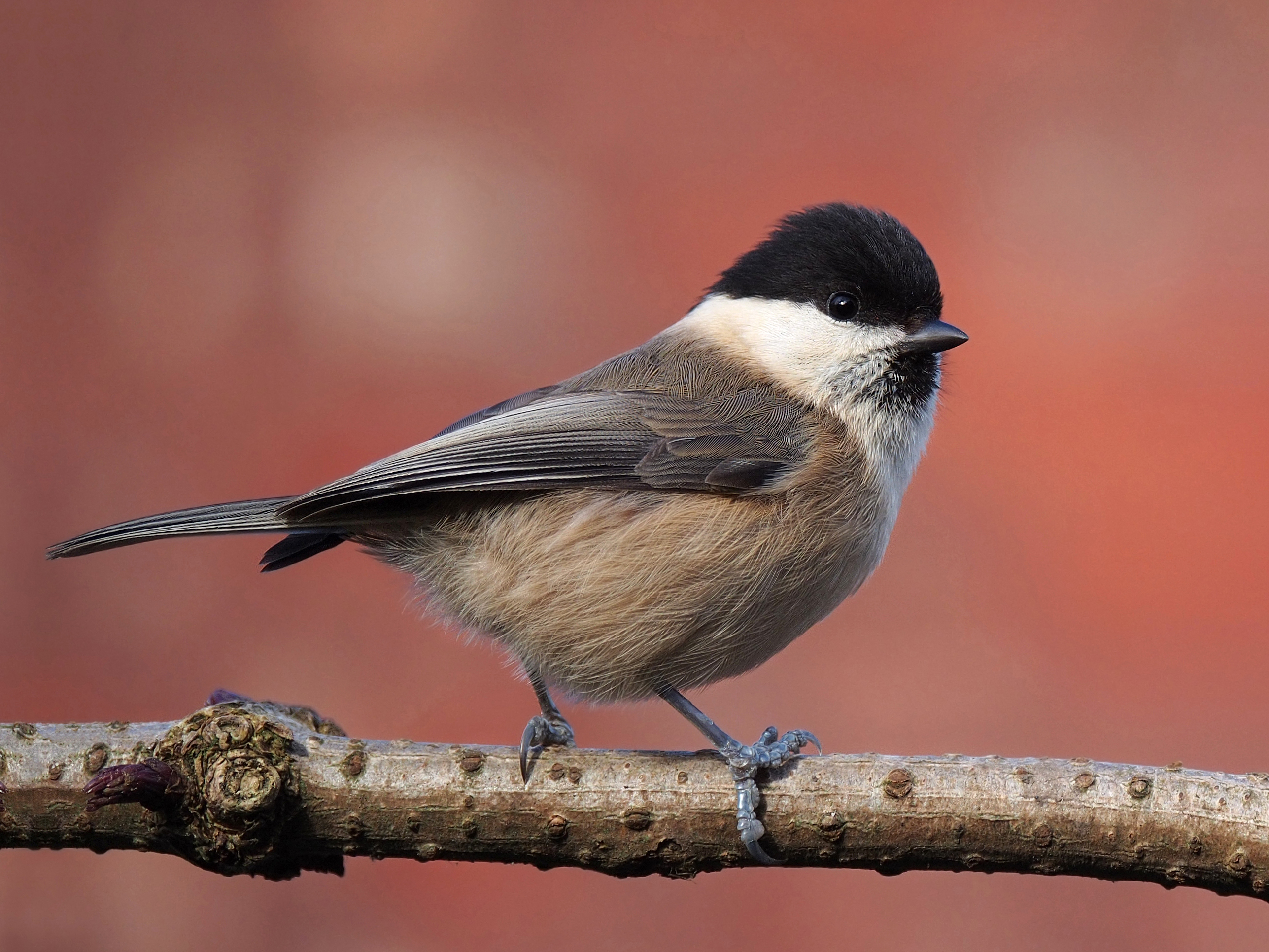 Willow Tit, a species of bird that has suffered a dramatic population decline over the past thirty years across Europe, and esp in Britain where it is an RSPB 'red status' bird. This image shows features that may differentiate it from the similar, but more common, Marsh Tit Poecile palustris: sooty cap, untidy bib, pale wing panel, larger white cheek, lack of pale patch on upper mandible. A definitive ID is usually obtained from its call.